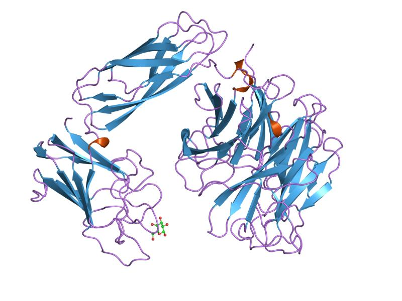 Cartoon representation of the molecular structure of protein registered with 1euu code.